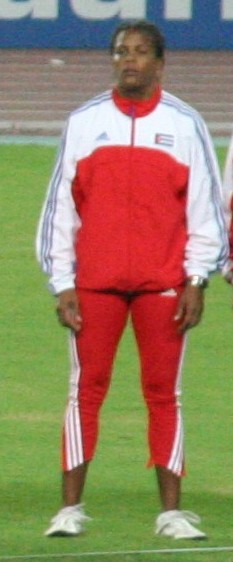 World Athletics Championships 2007 in Osaka - Yania Ferrales